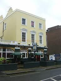 Historic Georgian public house built by Sir John Scott Lillie